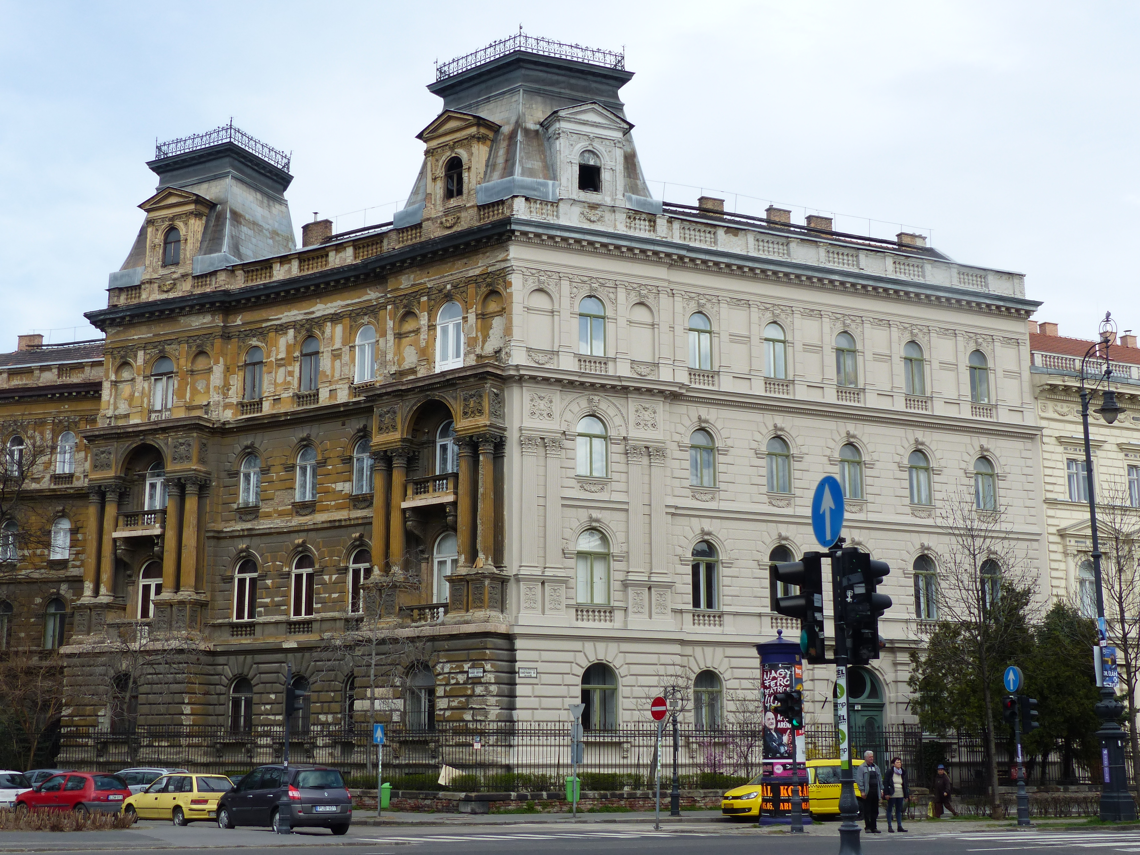 Renovation. Andrássy út 92-94 (Kodály körönd), Budapest, Hungary. Timestamp verified.